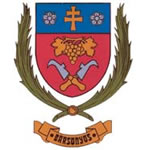 Coat of arms of Bársonyos, Hungary